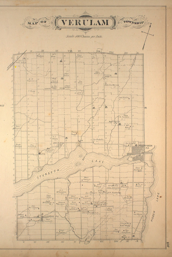 1881 map of Verulam Township in Victoria County, Province of Ontario, Canada.